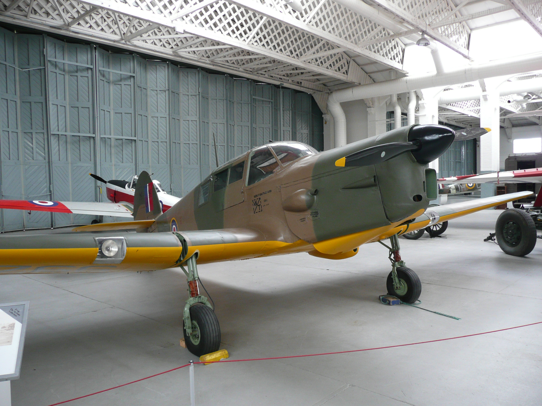 Percival Proctor III, Imperial War Museum Duxford in Duxford.